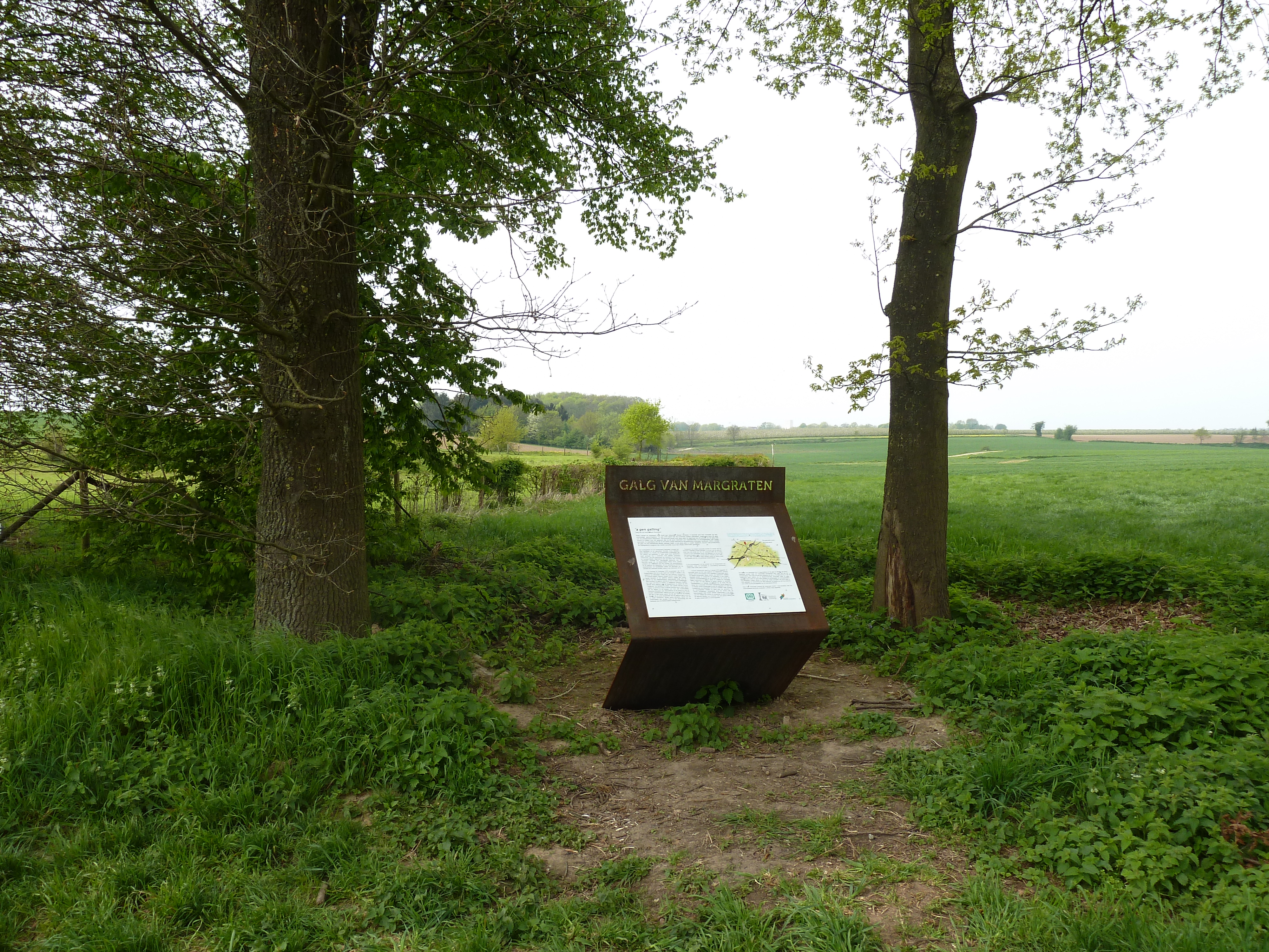 Location of the gallow of Margraten, Termaar/Bruisterbosch, Eijsden-Margraten, Limburg, Netherlands